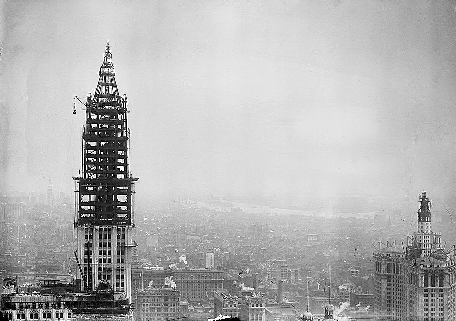 "Woolworth Bldg" An undated image, from the Bain News Service, of the Woolworth Building.